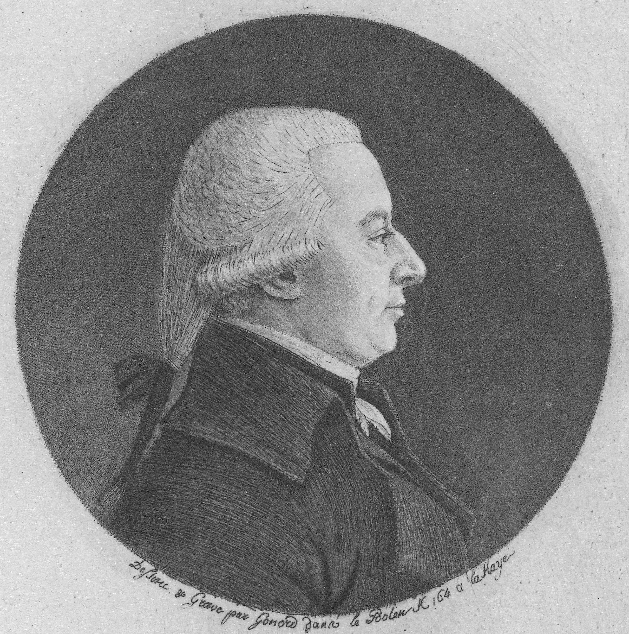 Portrait of Cornelis van Lennep (1751-1813)